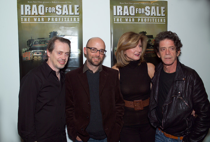 Steve Buscemi, Moby, Arianna Huffington and Lou Reed (from left to right)